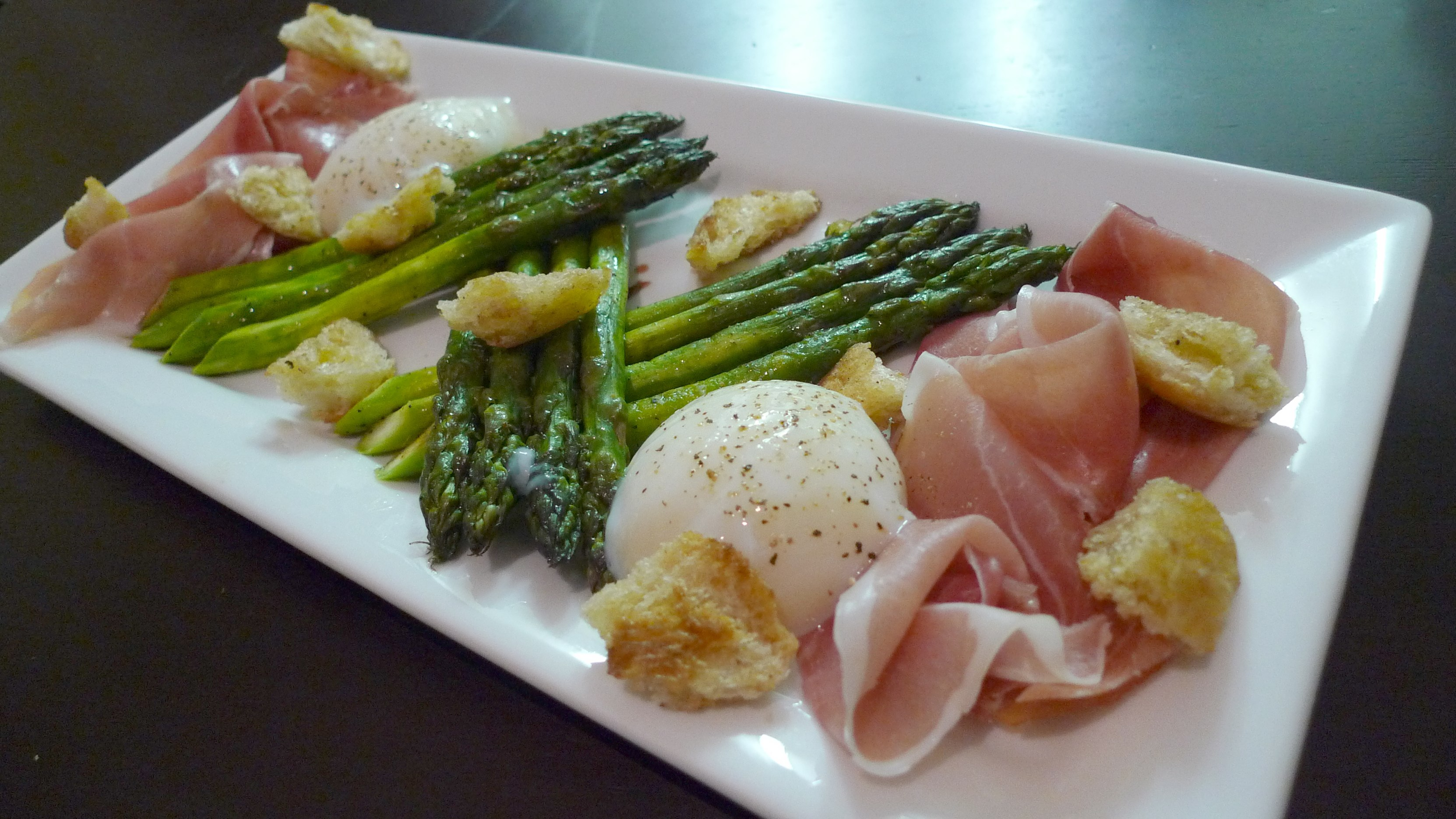 Grilled asparagus, prosciutto, 63-degree egg and torn croutons